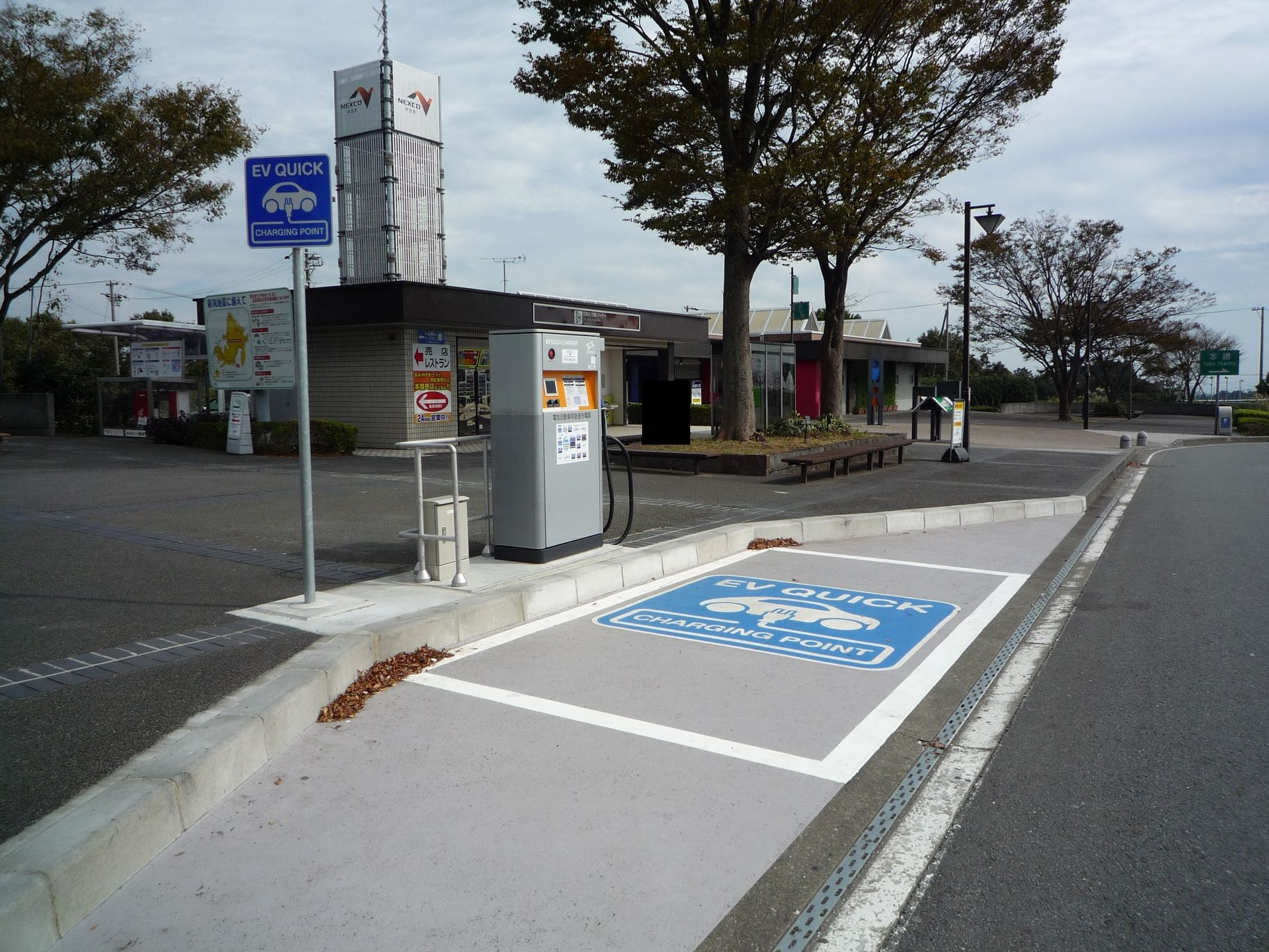 Battery rapid charging zone for electric vehicles in Japan. (At Tomei Expressway Makinohara Service Area(up))